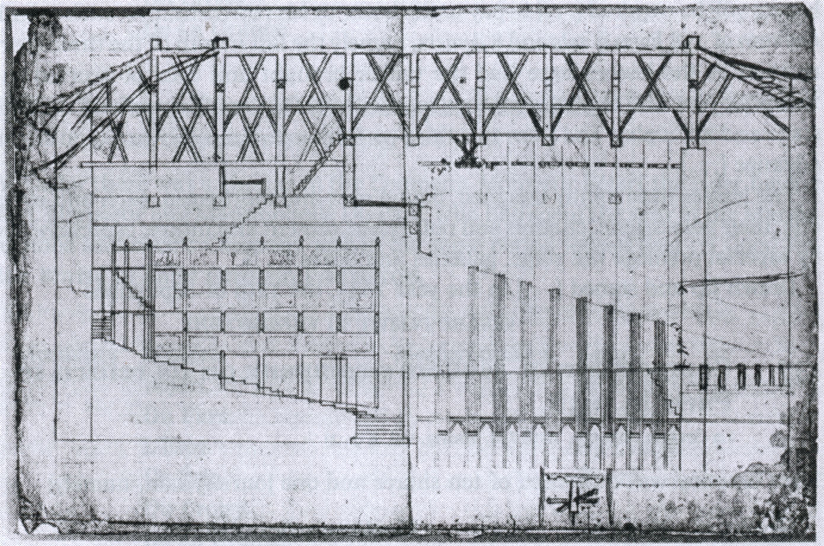 Longitudinal section of the first Salle du Palais-Royal as it appeared in the 1673 renovation carried out by Carlo Vigarani.